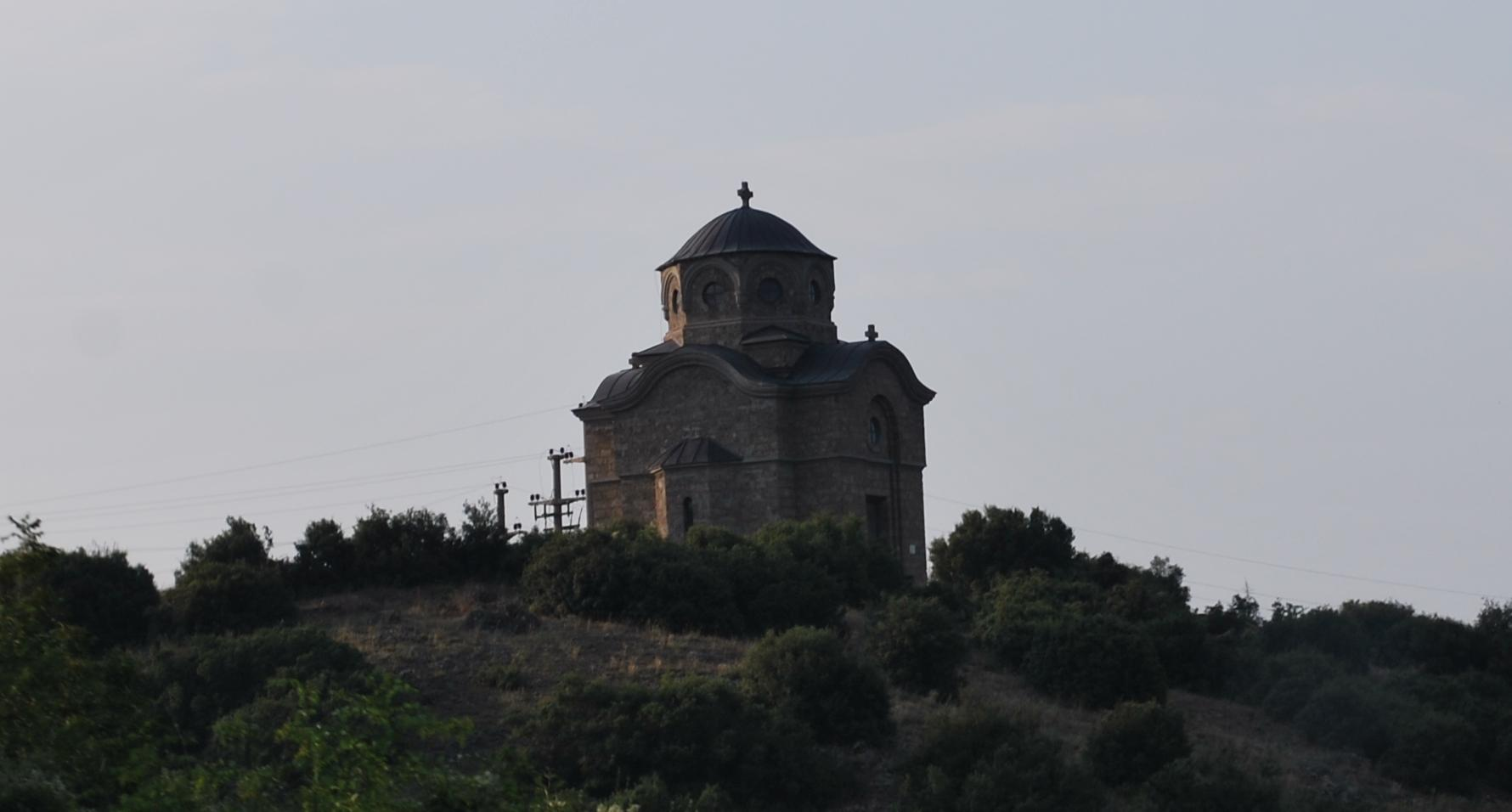 Udovo Memorial, Macedonia